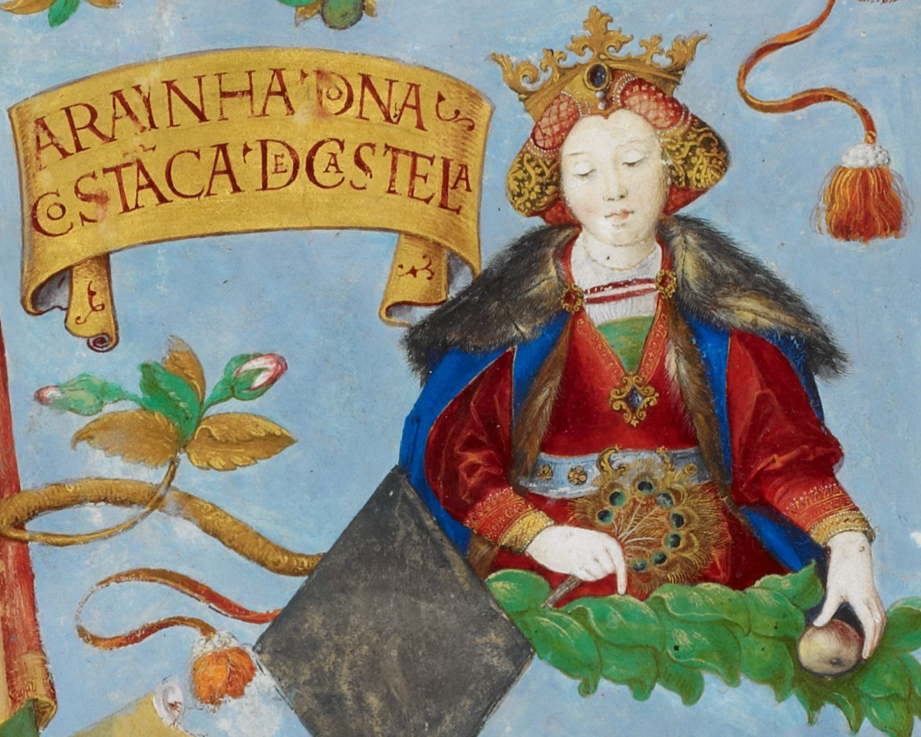 Constance of Portugal (1290-1313), Infanta of Portugal and Queen Consort of Castile.